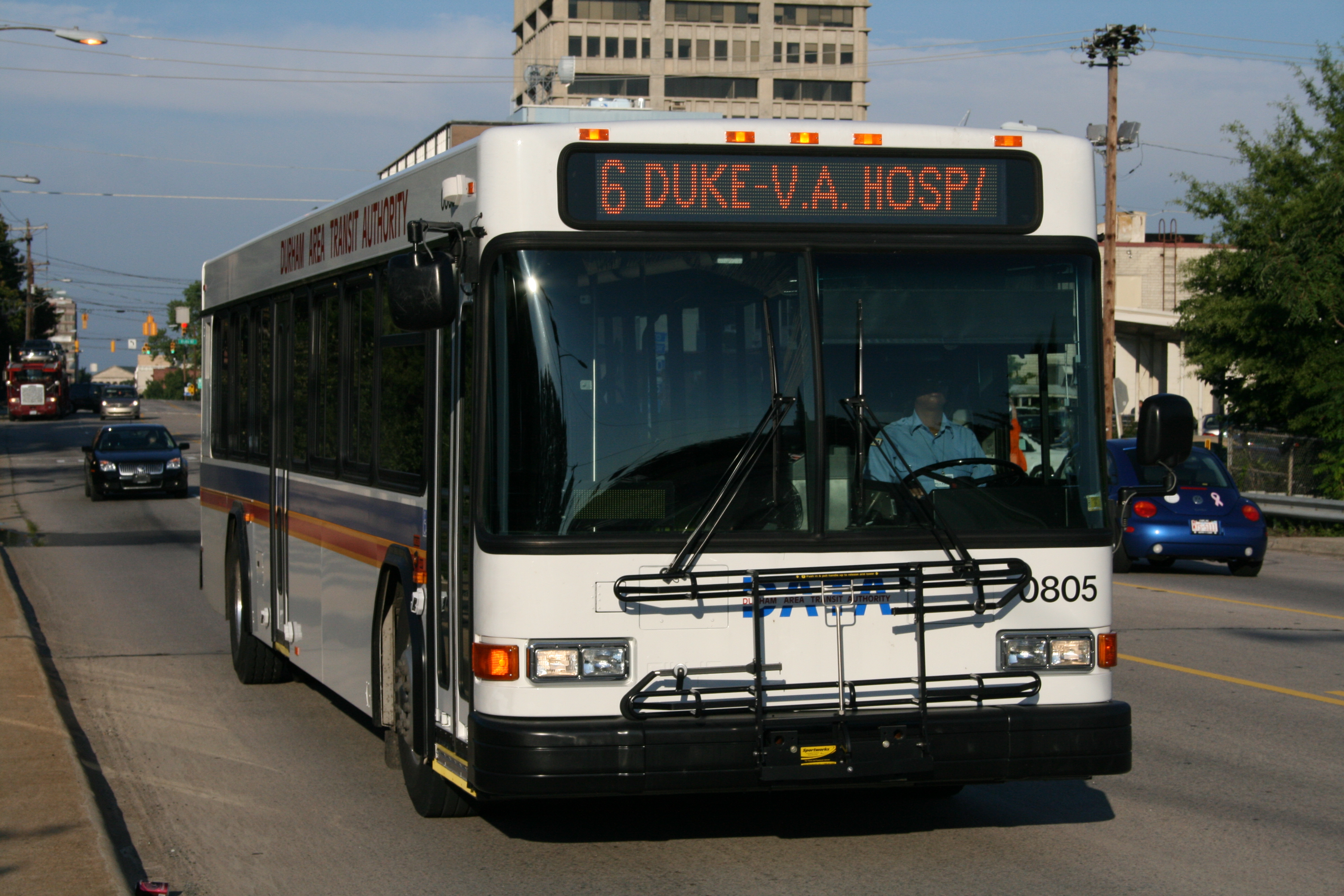 DATA bus 0805 running route 6 westbound on the W Chapel Hill St bridge over NC 147 in Durham, North Carolina.